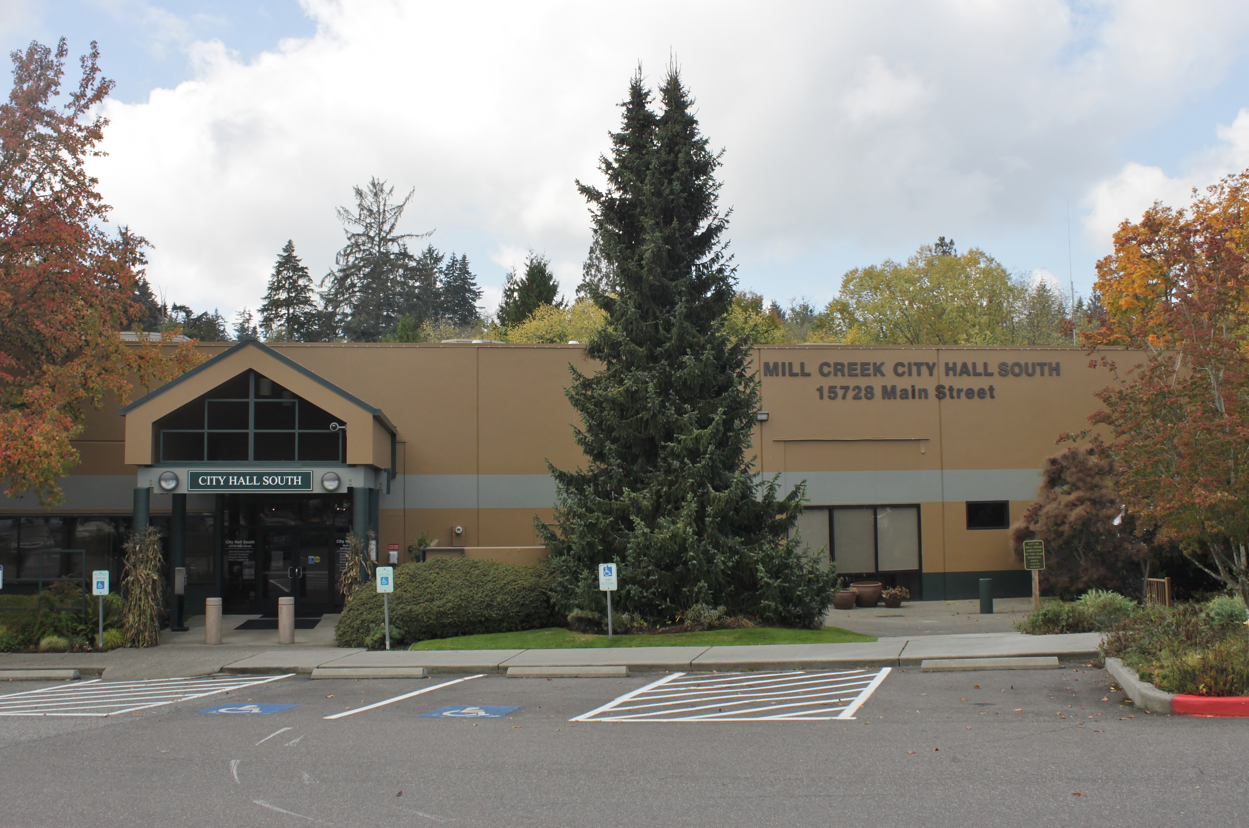 The south building of Mill Creek, Washington's city hall.